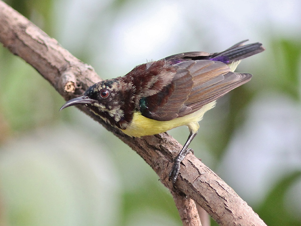 A young Purple-rumped Sunbird in the moulting process during which the patchy plumage of youth gets transformed into adult colours.